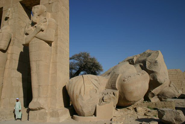 Ramesseum. Ramses Statue Image taken by Bradipus in April 2005.